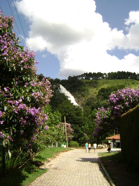 Picture from Preto's Waterfall Park entry